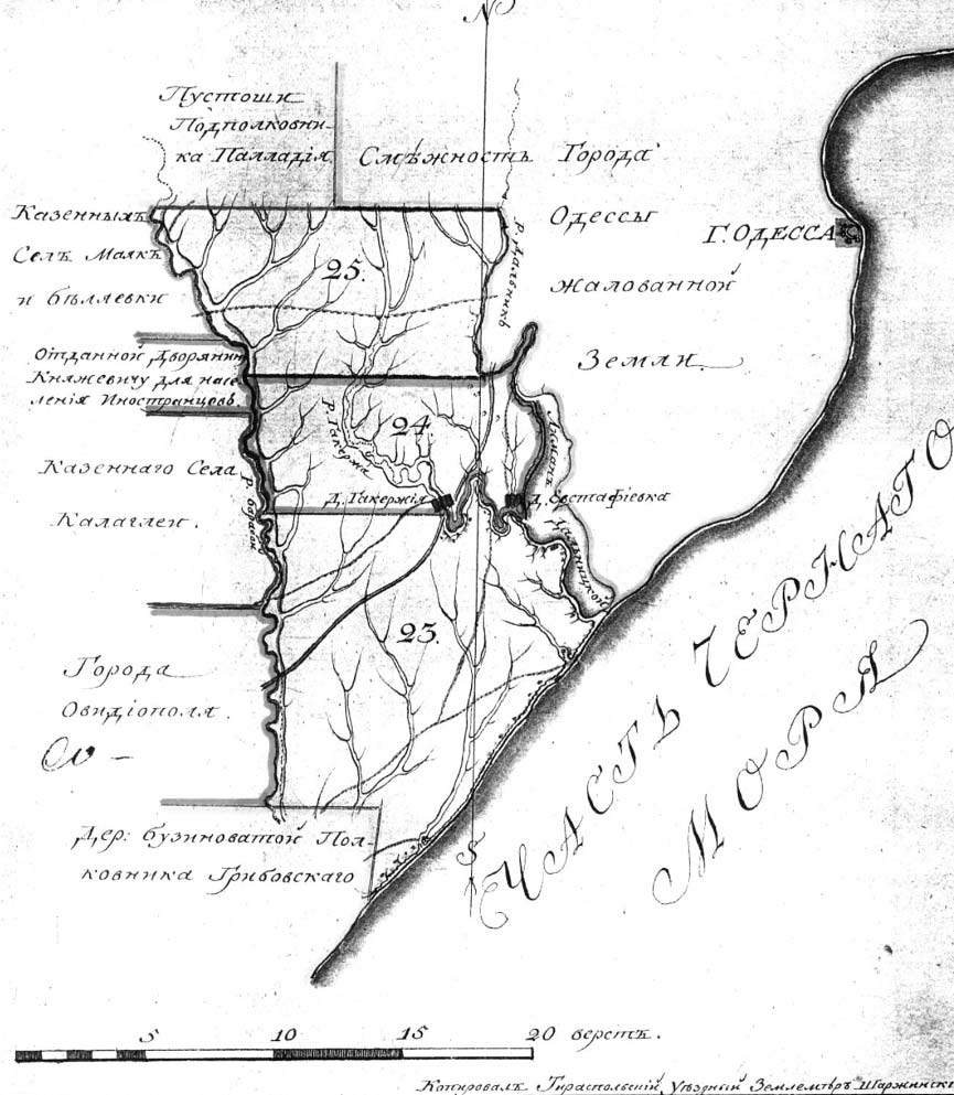 Plan of the founding of Kleinliebental and Großliebental